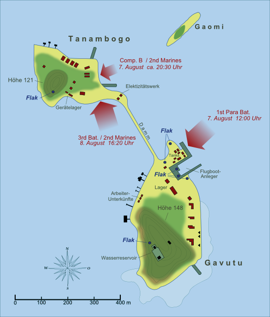 Map in German language depicting the allied landings on Gavutu and Tanambogo (7 / 8 August 1942) during the Pacific War. It is based mainly on a contemporary military sketch as well as on aerial reconnaissance photos from May/June 1942.